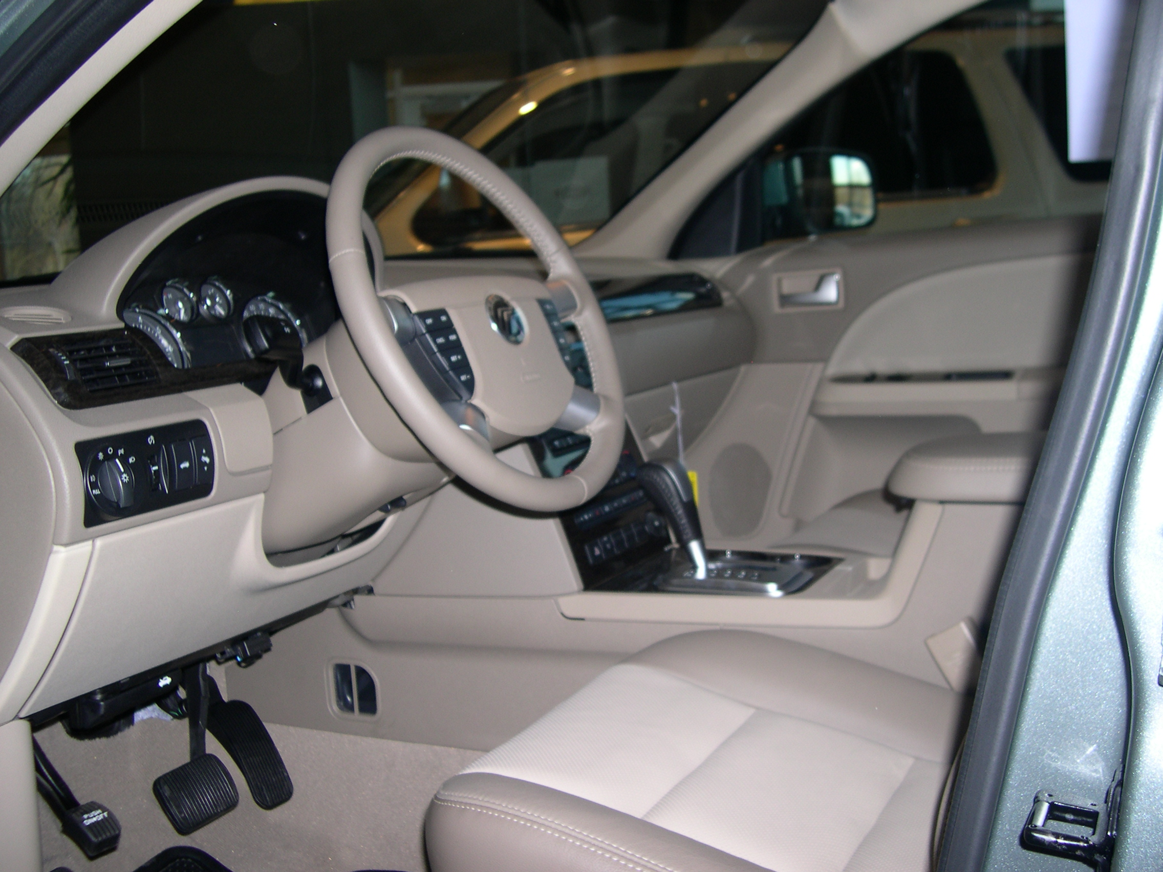 2006 Mercury Montego